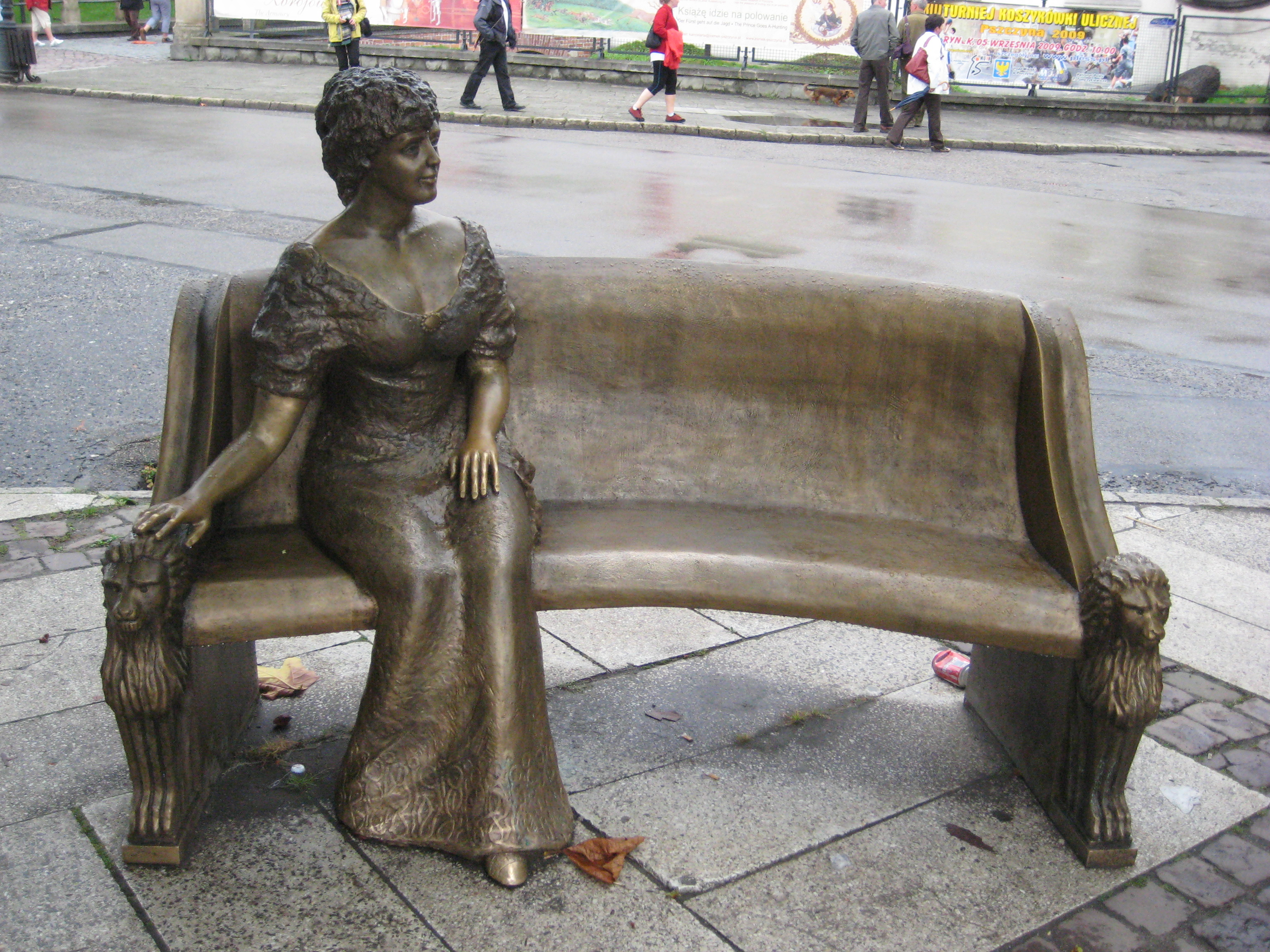 Photo of public bench with memorial to Daisy von Pless